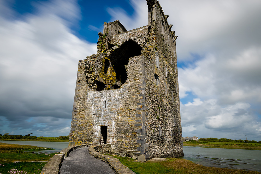 Carrigafoyle Castle